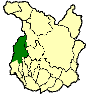 Location of Pesciatin Switzerland inside the Province of Pistoia